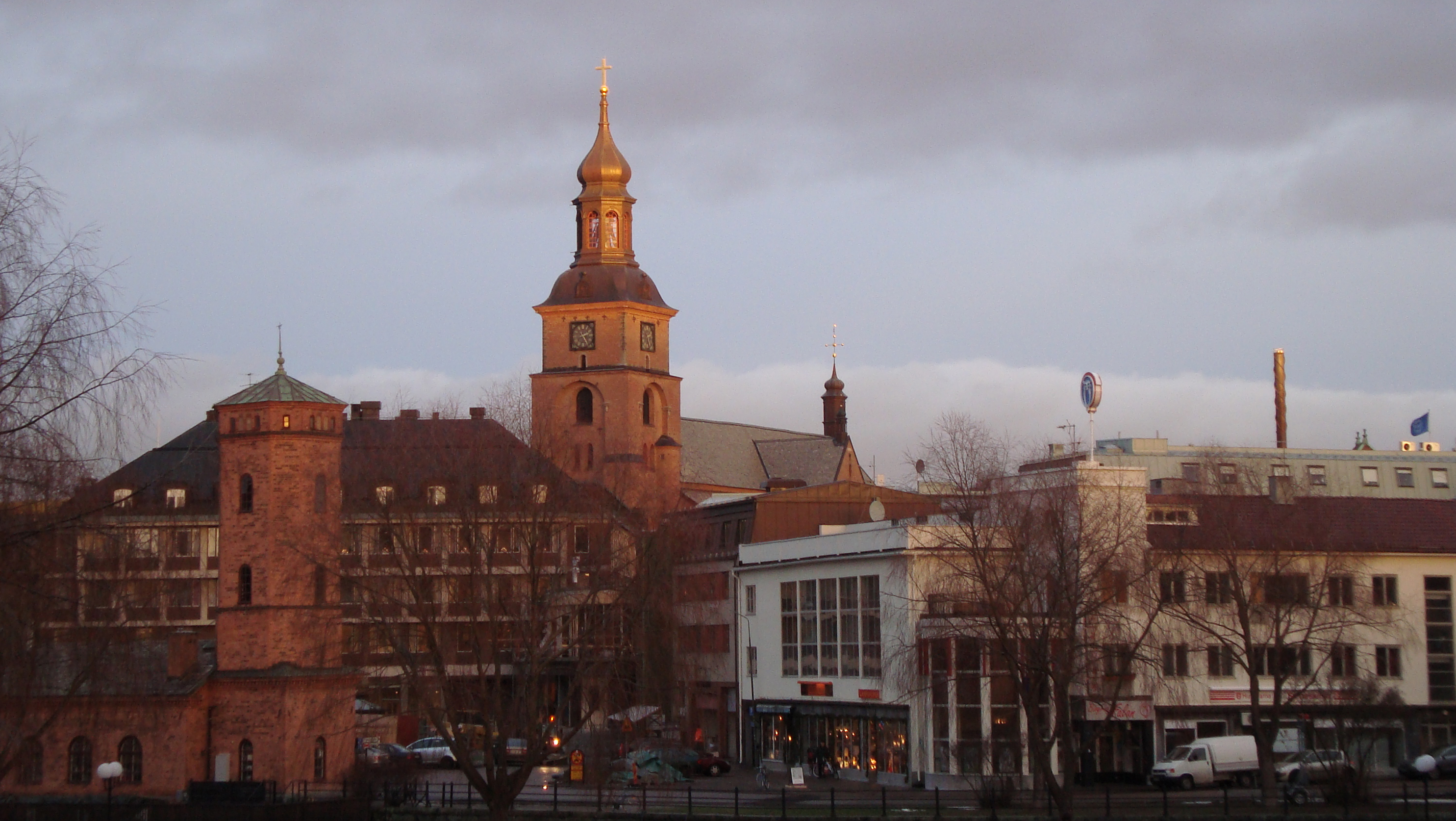 City of Falun, seen from the Swedish Radio building in Falun. Brick building on the left: Bryggkaféet (jetty café). Behind: public library. Church Kristinekyrkan in the center.